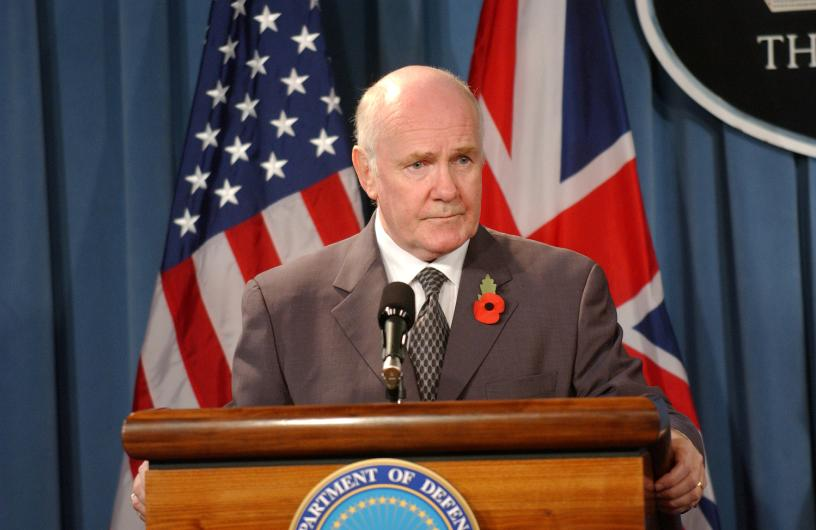 Secretary of State for Defence John Reid listens to a reporter's question during a press conference at the Pentagon Nov. 7, 2005.